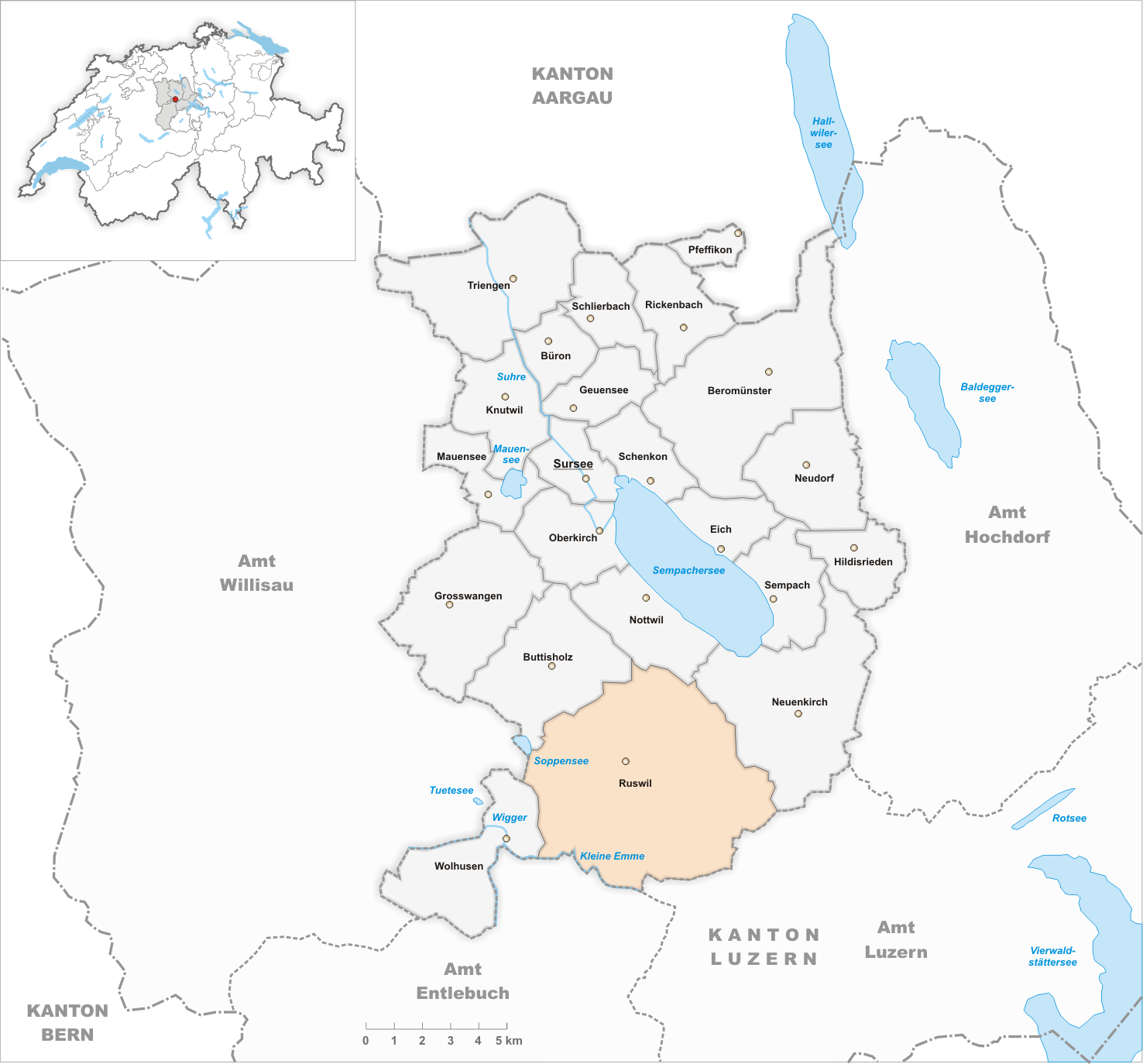 Municipality Ruswil